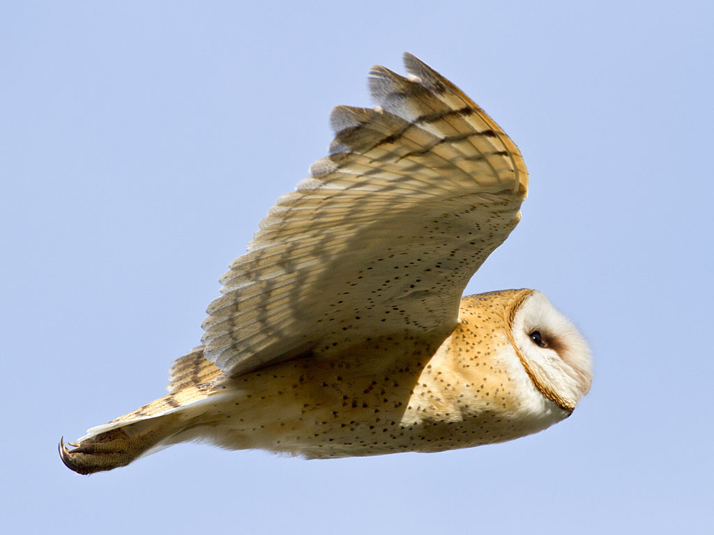 American Barn Owl Tyto furcata pratincola at Carrizo Plain National Monument, San Luis Obispo County, California.